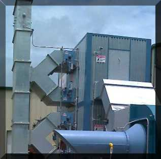 VamTox Manufactured by American Environmental Fabrication & Supply,LLC[1]